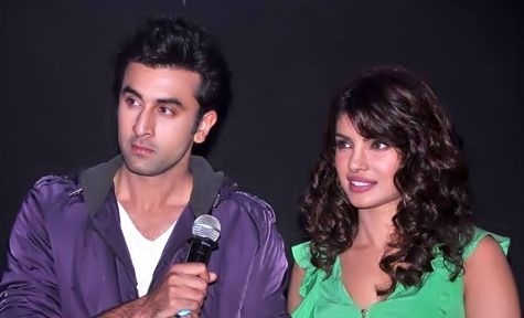 Priyanka Chopra, Ranbir Kapoor at the launch of 'Barfi!' promo